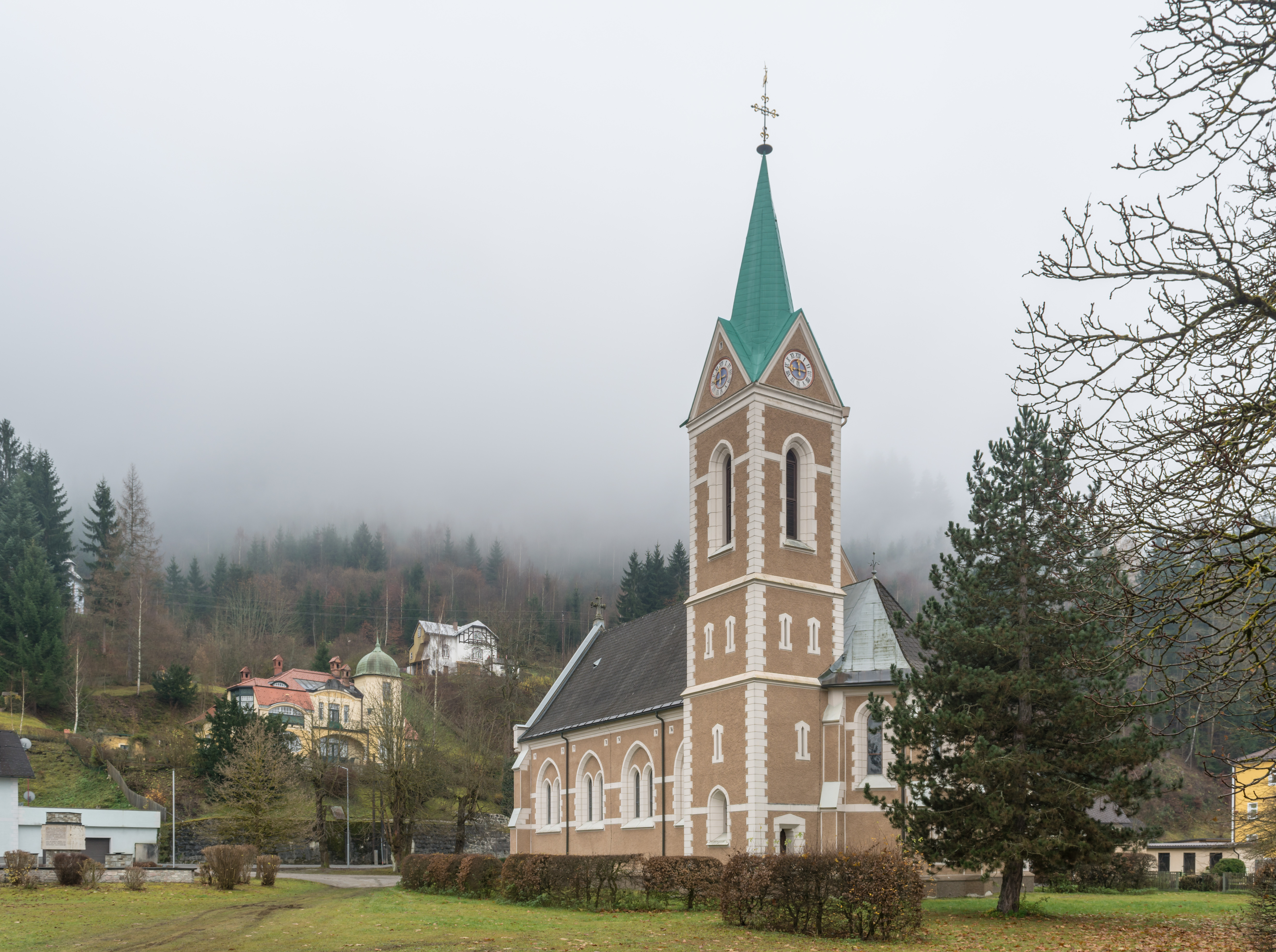 Catholic parish church in Selzthal, Styria